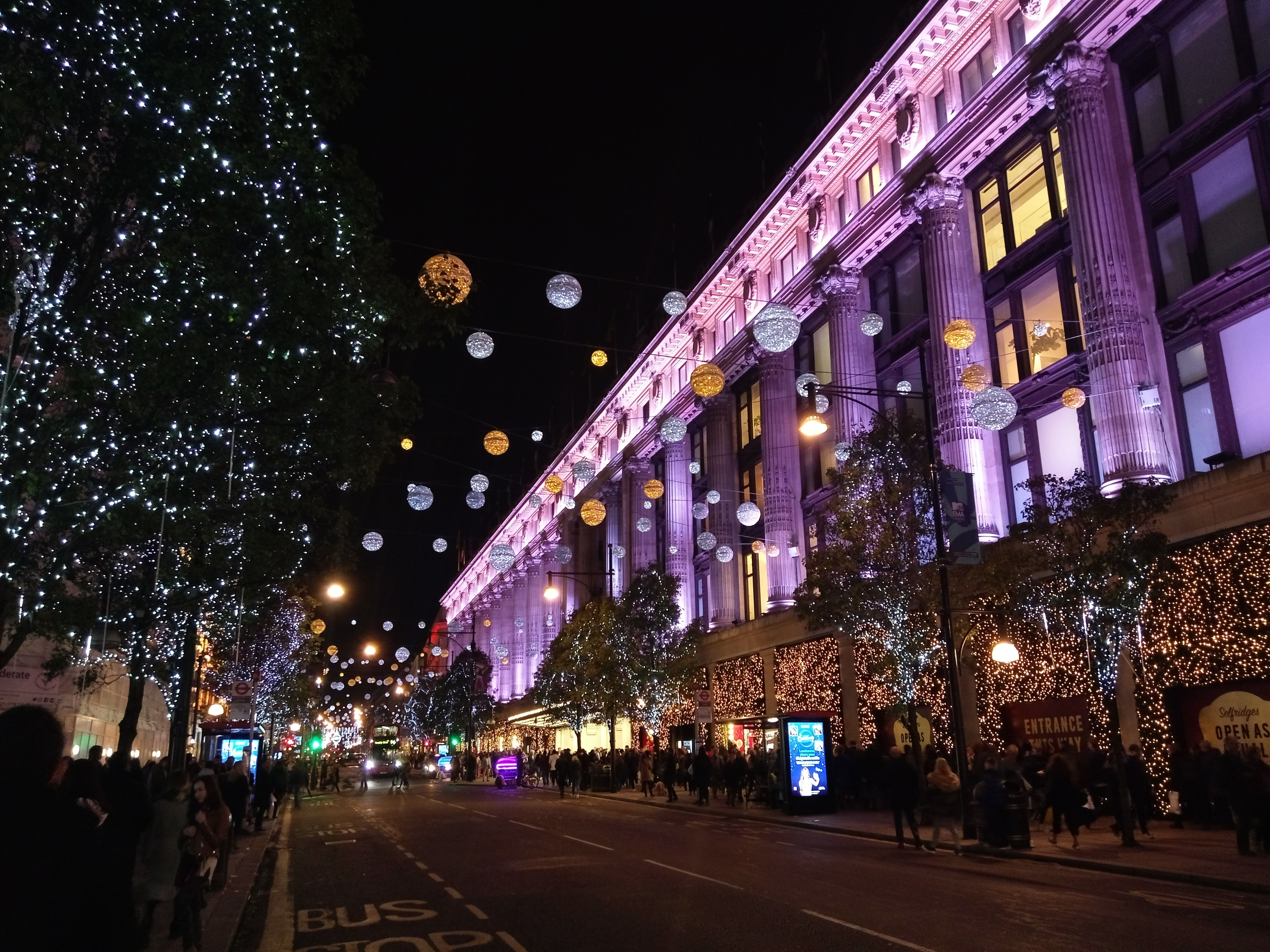 Christmas decorations in Oxford Street, London, United Kingdom during Christmas 2017